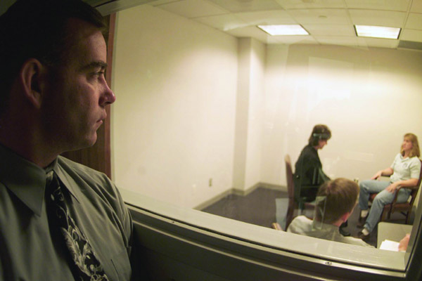 Interview of a person by the Air Force Office of Special Investigations (AFOSI)